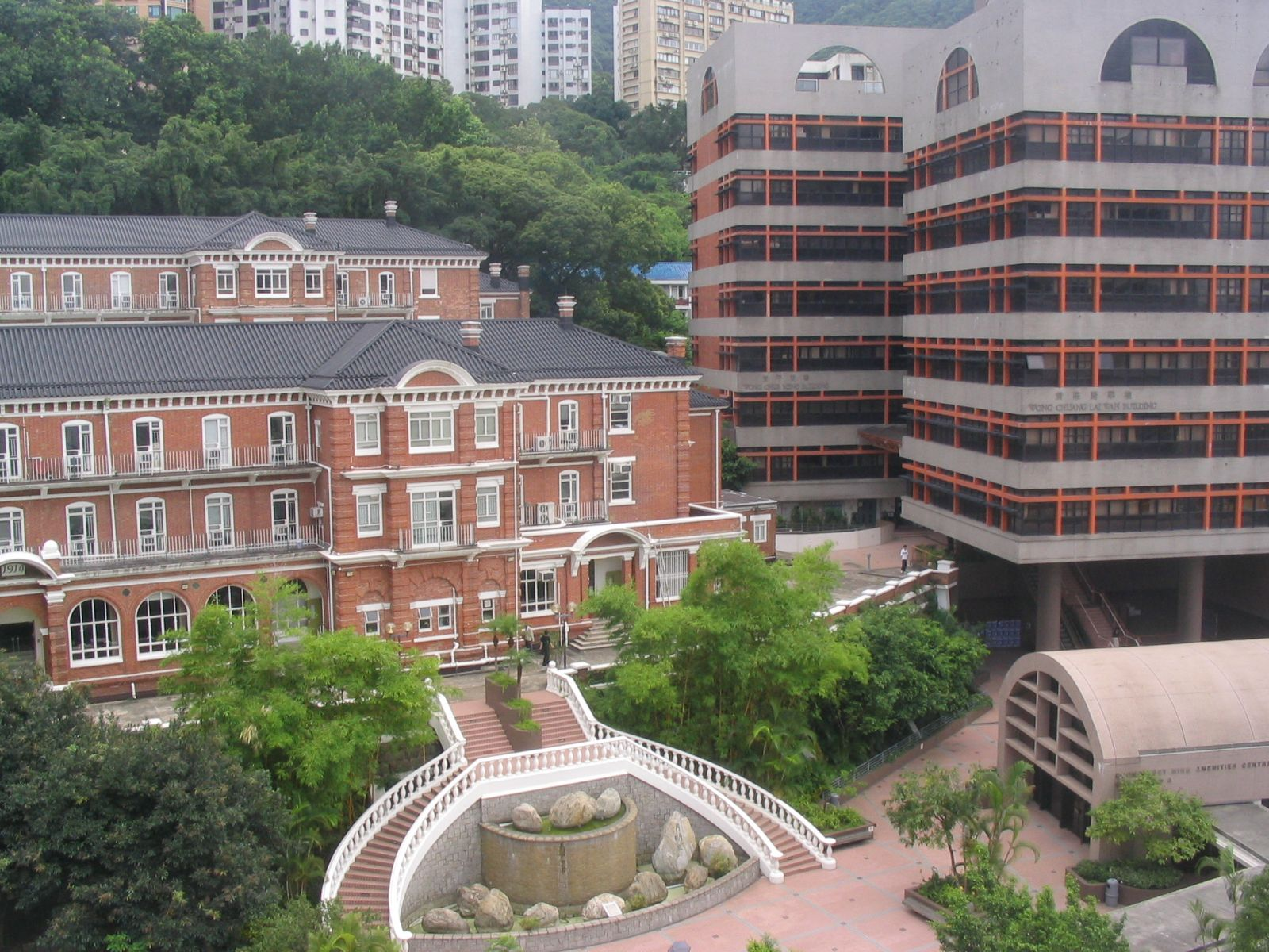 香港大學(梅堂及儀禮堂) The University of Hong Kong (Eliot Hall & Meng Wah Complex)